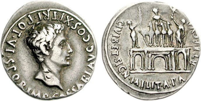 Augustus. 27 BC-AD 14. AR Denarius (3.86 g, 6h). Spanish mint - Tarraco. Struck 18 BC. S • P • Q • R • IMP • CAESARI • AVG • COS • XI • TRI • POT • VI •, bare head right CIVIB • ET • SIGN • MILIT • A • PA-RT • RECVP •, triumphal arch of Augustus: central arch surmounted by a facing quadriga; side arches, on each of which is a standing figure; on left, figure standing right, holding a signum in raised right hand; on right, figure standing left, holding an aquila in raised right hand and bow at side in left. RIC I 136; RSC -; cf. BMCRE 427 = BMCRR Rome 4453 (aureus); BN 1229-31.